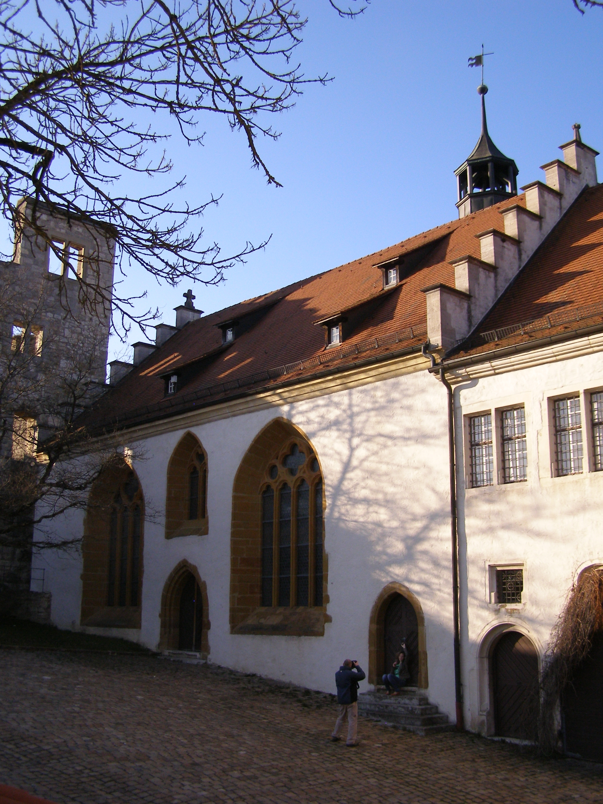 Heidenheim an der Brenz - Hellenstein castle